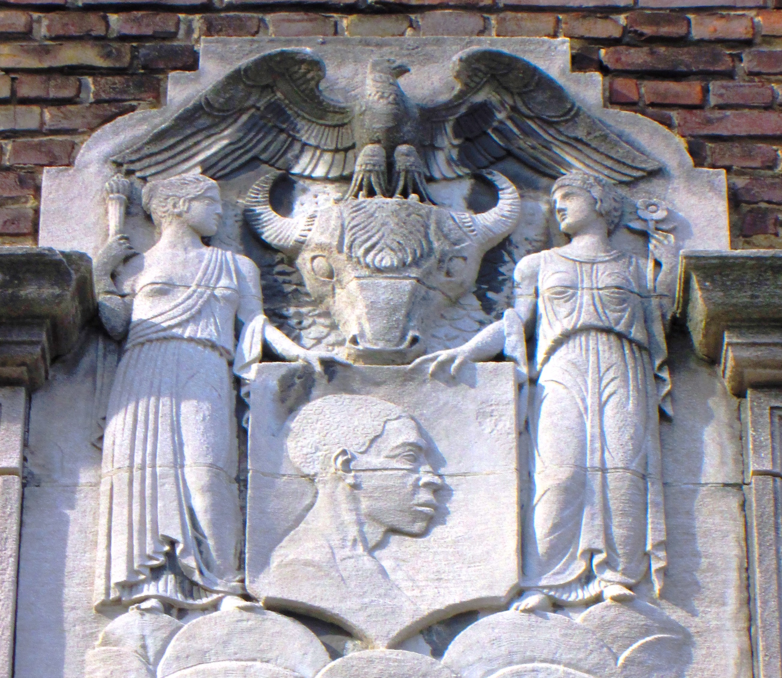 The Dunbar Apartments is a complex of buildings located on West 149th and West 150th Streets between Frederick Douglass Boulevard/Macombs Place and Adam Clayton Powell Jr. Boulevard in the Harlem neighborhood of Manhattan, New York City. They were built by John D. Rockefeller, Jr. from 1926 to 1928 to provide housing for African Americans, the first project of its kind. The buildings were designed by architect Andrew J. Thomas and were named in honor of the noted African American poet Paul Laurence Dunbar. (Sources: Guide to NYC Landmarks (4th ed.) and AIA Guide to NYC (5th ed.))